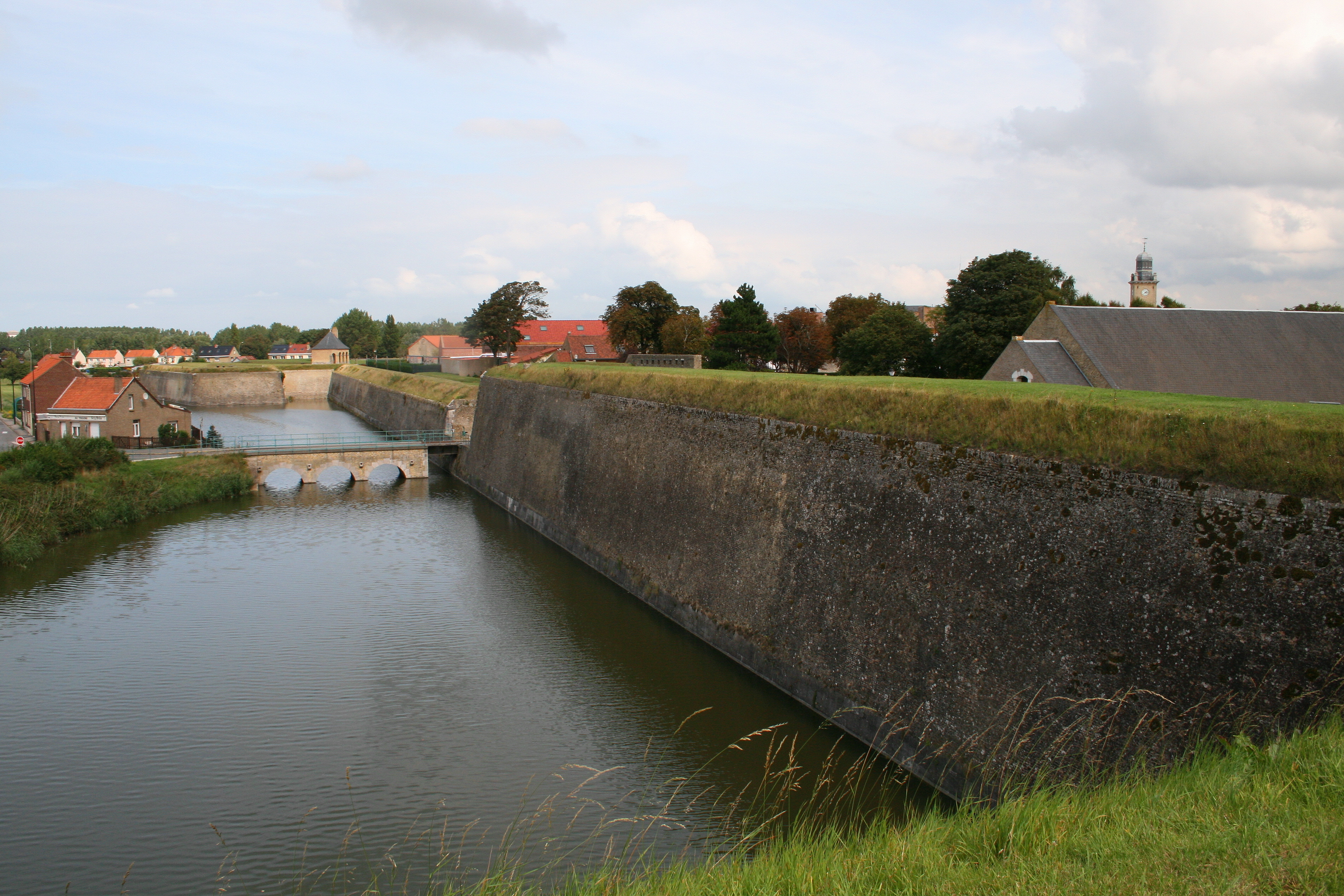 Gravelines (Nord) France, the moat, the drawbridge, the western walls and the bastion of the Mill seen from the bastion of the Castle (XVI-XIXth cenuries).